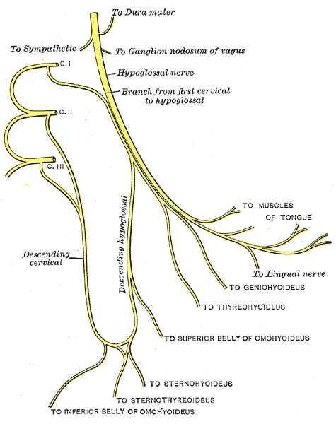 Plan of hypoglossal nerve.